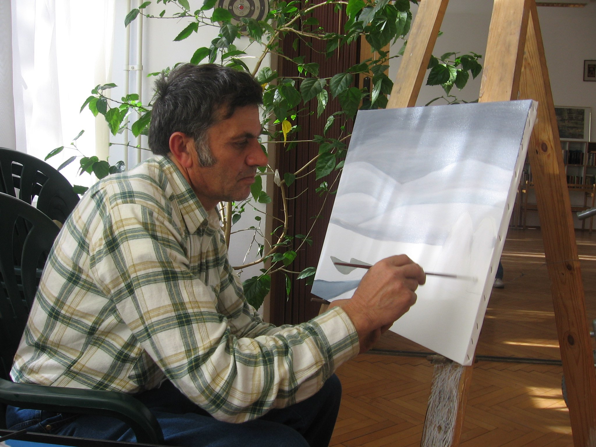 Miloš Lazić